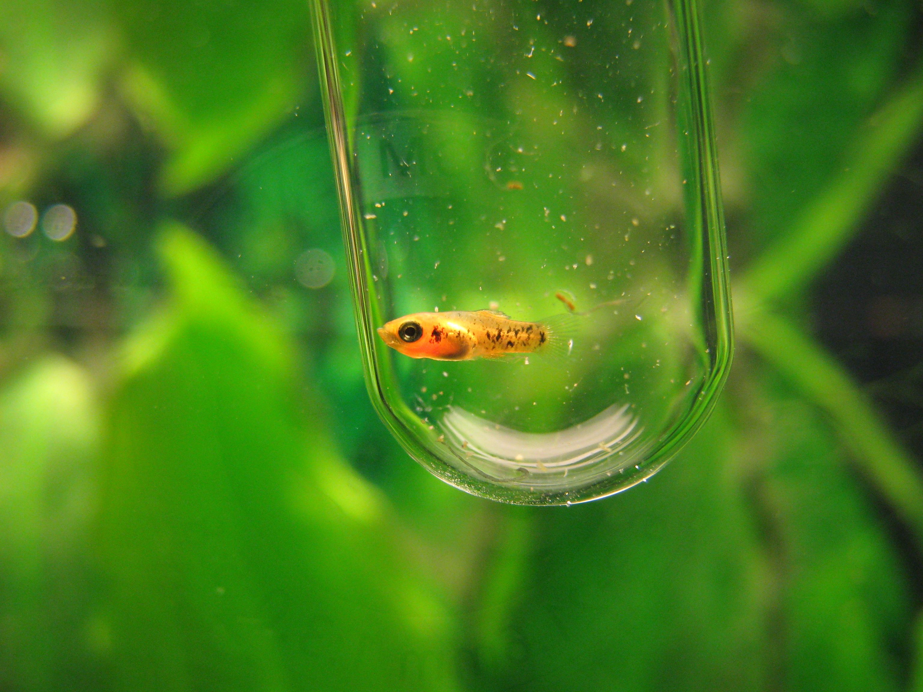 Three days old Xiphophorus maculatus (7mm)